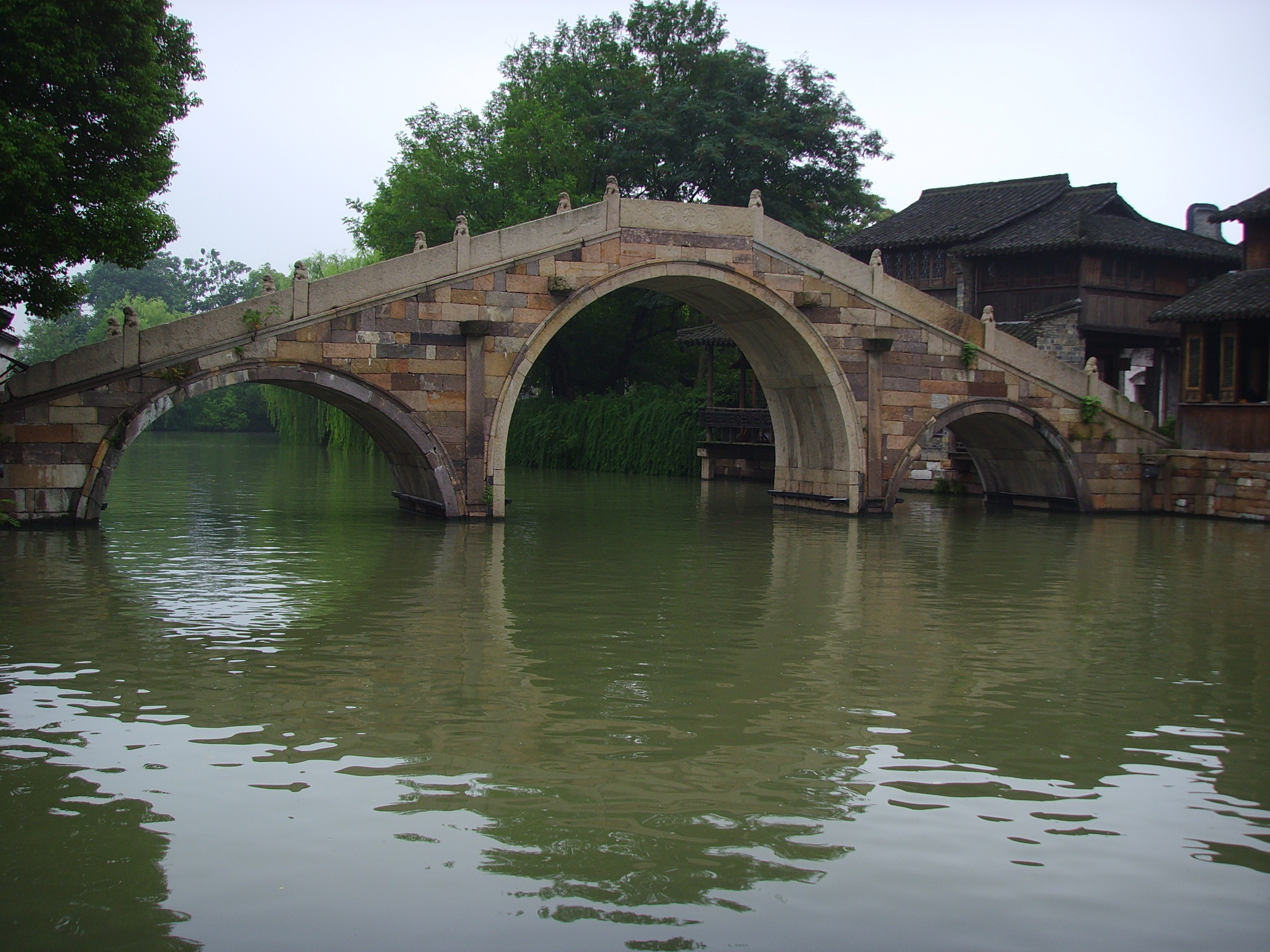 Wuzhen Xizha, Tongxiang, Zhejiang, P. R. of China: bridge